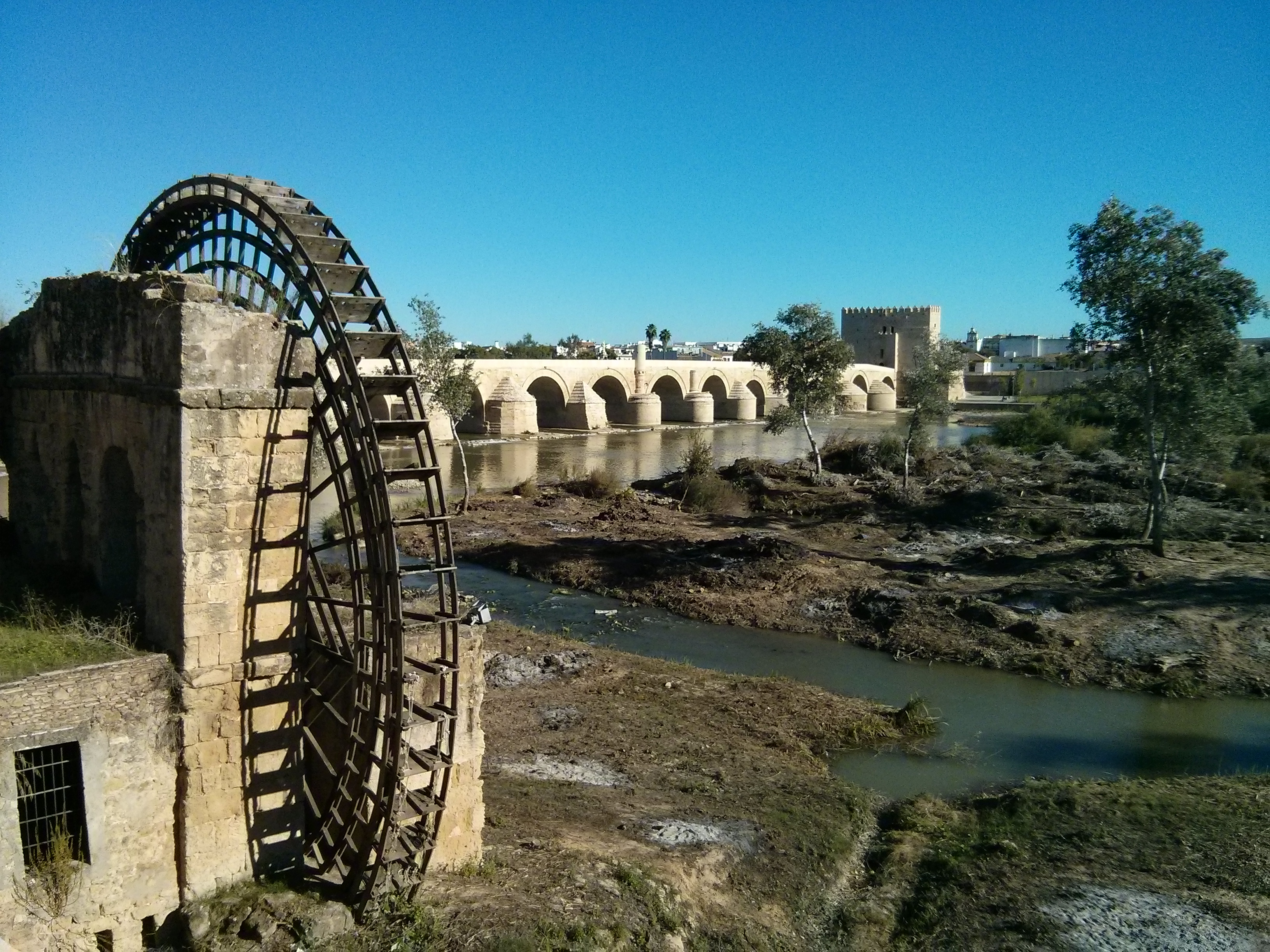 with the Roman Bridge and Calhorra tower in the background and the nature reserve in the Guadalquivir River in the foreground. The Albolafia Water Mill used to irrigate the old Alcazar vegetable gardens